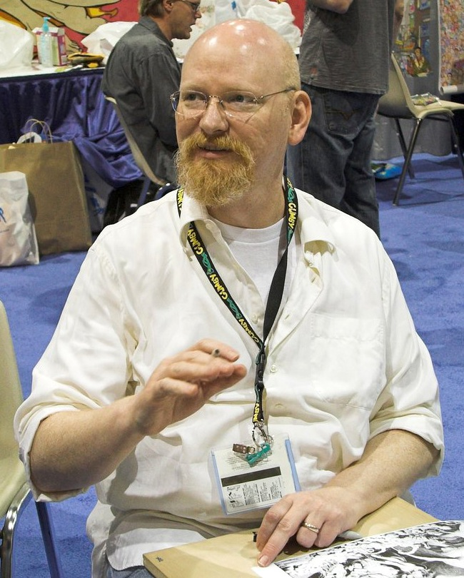 Art Adams, American writer and comic book illustrator.